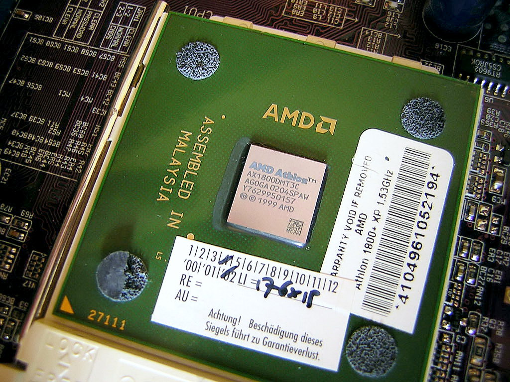 CPU AMD Athlon XP 1800+ with Palomino core